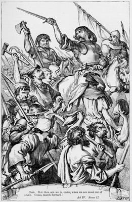 Jack Cade's rebellion in Henry VI